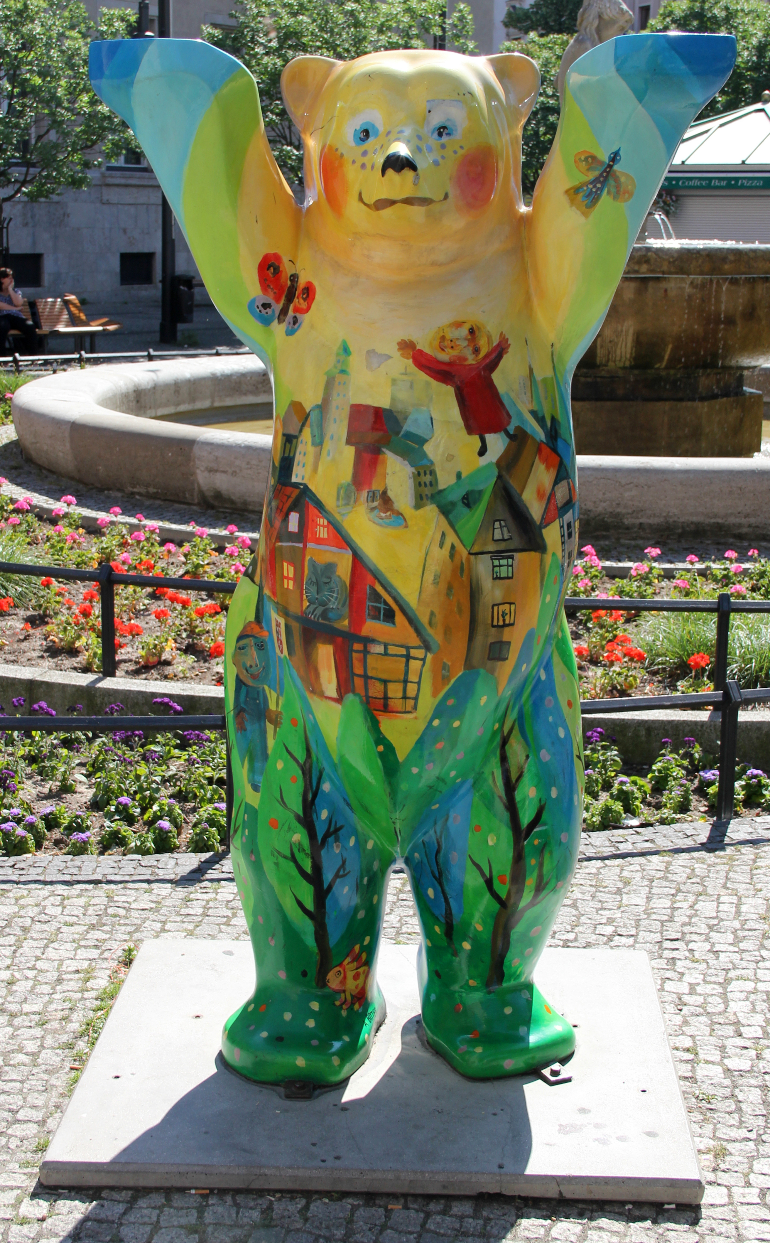 Sculpture, Rixi Bär, Karl-Marx-Straße 83, Berlin-Neukölln, Germany